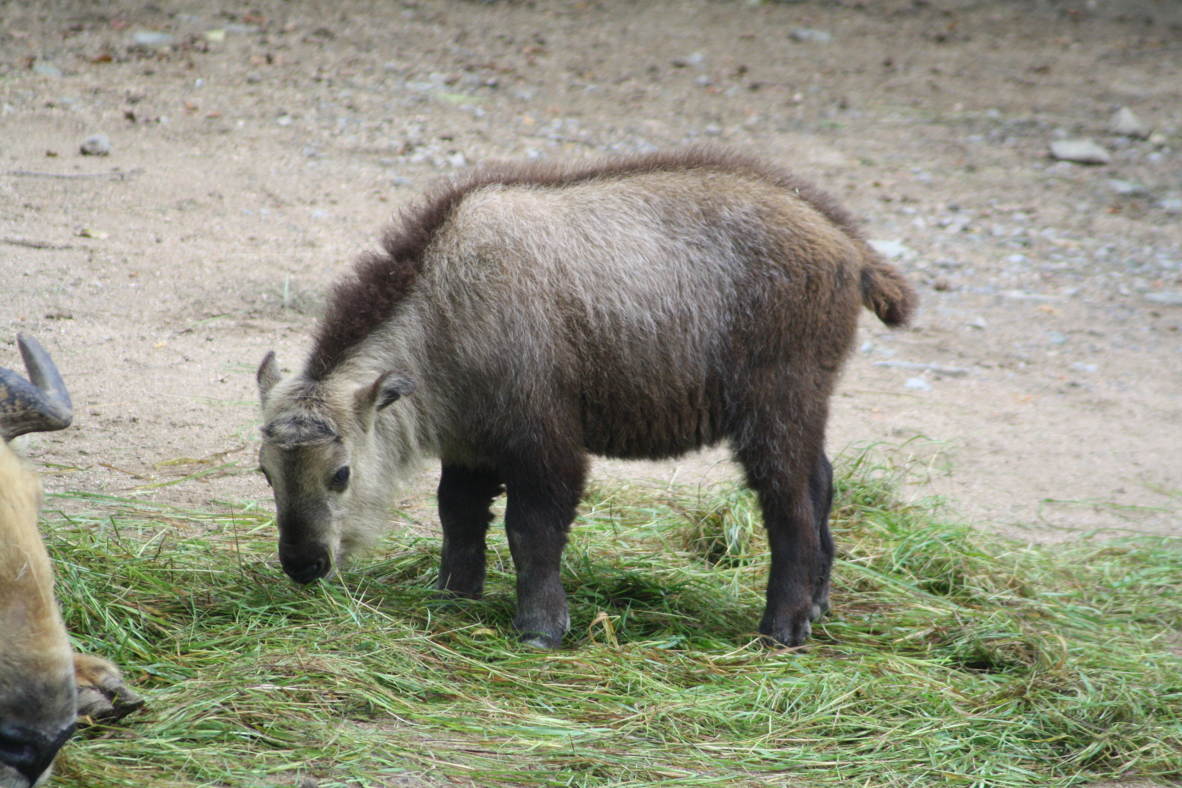 Budorcas taxicolor bedfordi in Liberec ZOO.